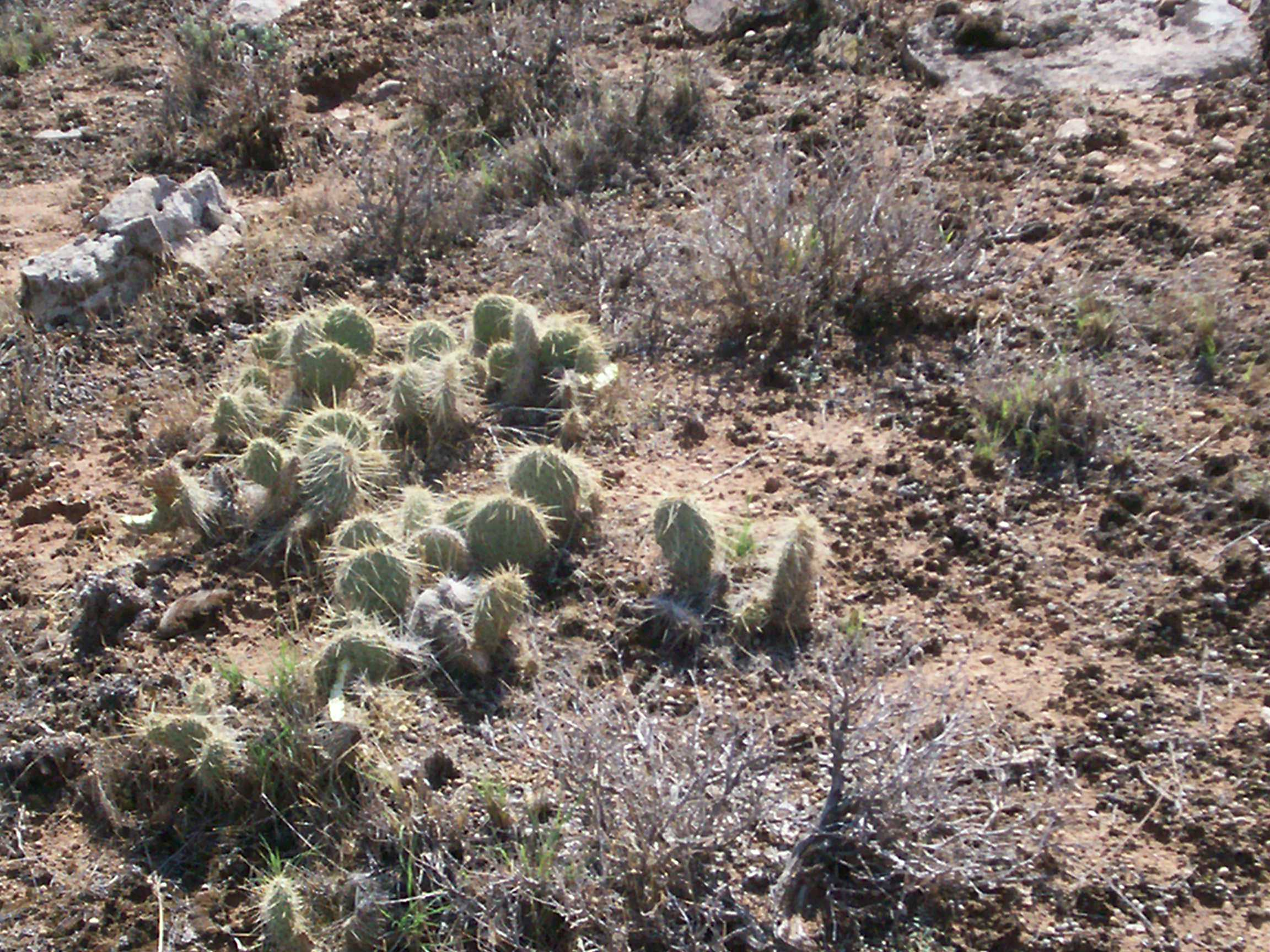 Prickly Pear cactus are common throughout the Colorado Plateau region.